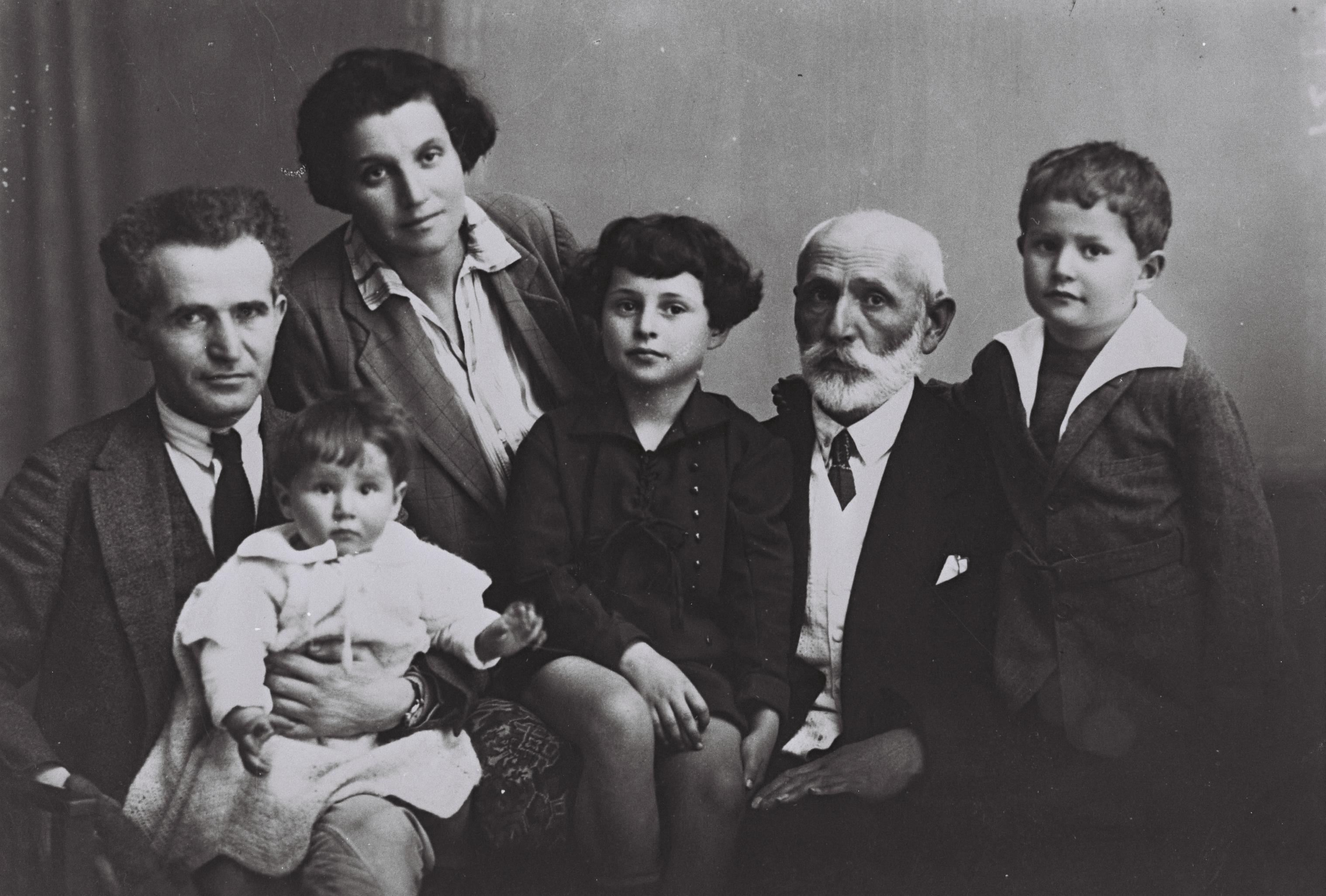 The Ben Gurion family in their Tel Aviv home. From left: David & Paula with youngest daughter Renana (marr. Leshem) on BG's lap, daughter Geula (marr. Ben-Eliezer), father Avigdor Grün and son Amos